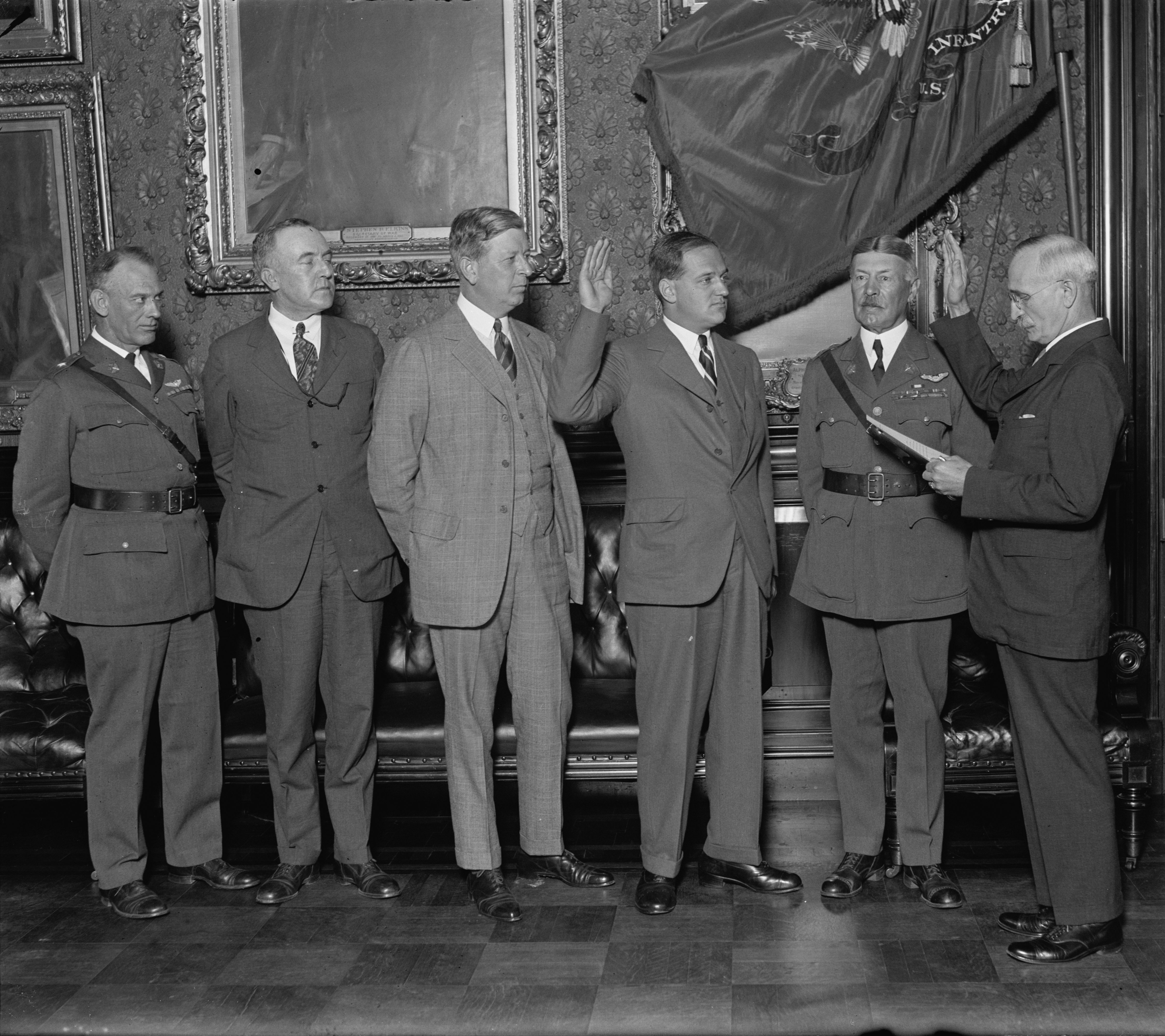 Swearing in of Asst. Sec. of War, F.T. Davison, Jr., 7/16/26.